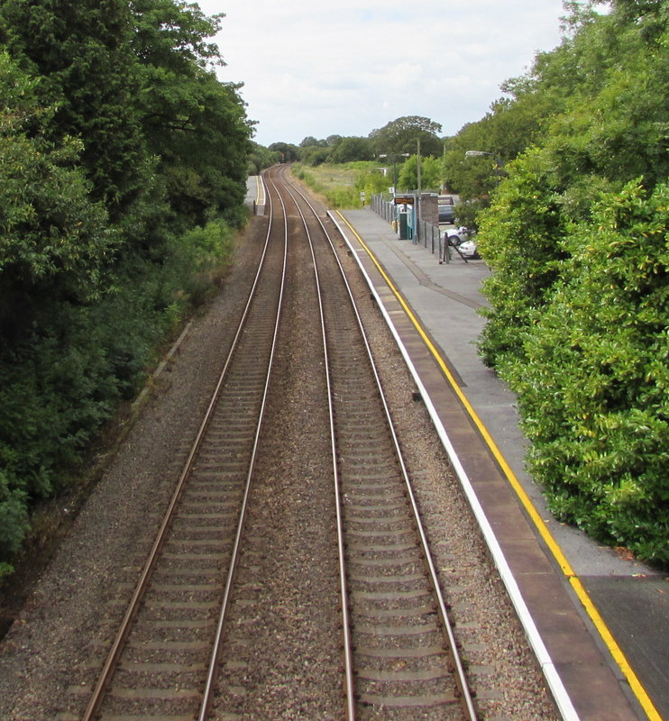 Staggered platforms at Clunderwen railway station. Viewed from the A478 road bridge. Platform 1 for eastbound trains is on the right. The edge of platform 2 for westbound trains is on the left ahead.